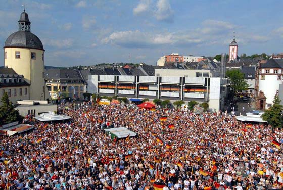 Schlossplatz, Unteres Schloss, Siegen. Opening 2006 World Cup match.